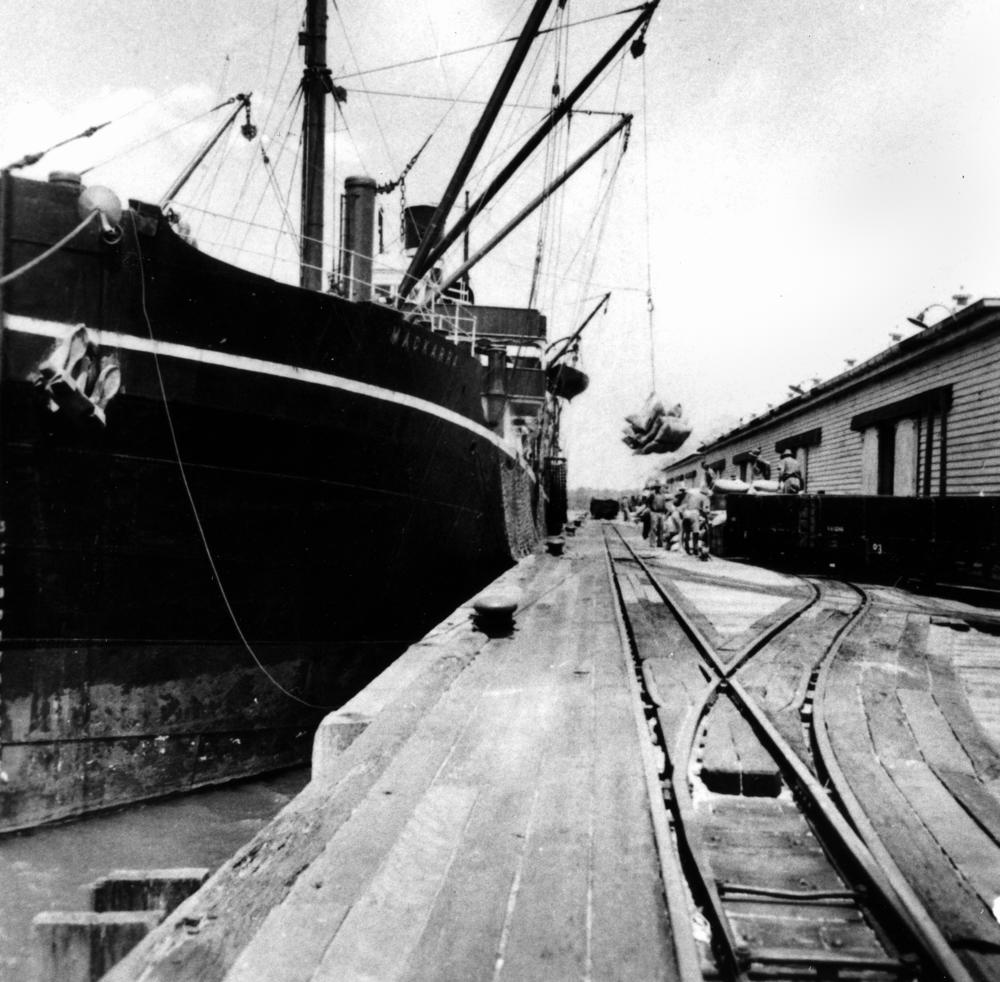 Mackarra (ship) Mackarra loading or unloading at a wharf.